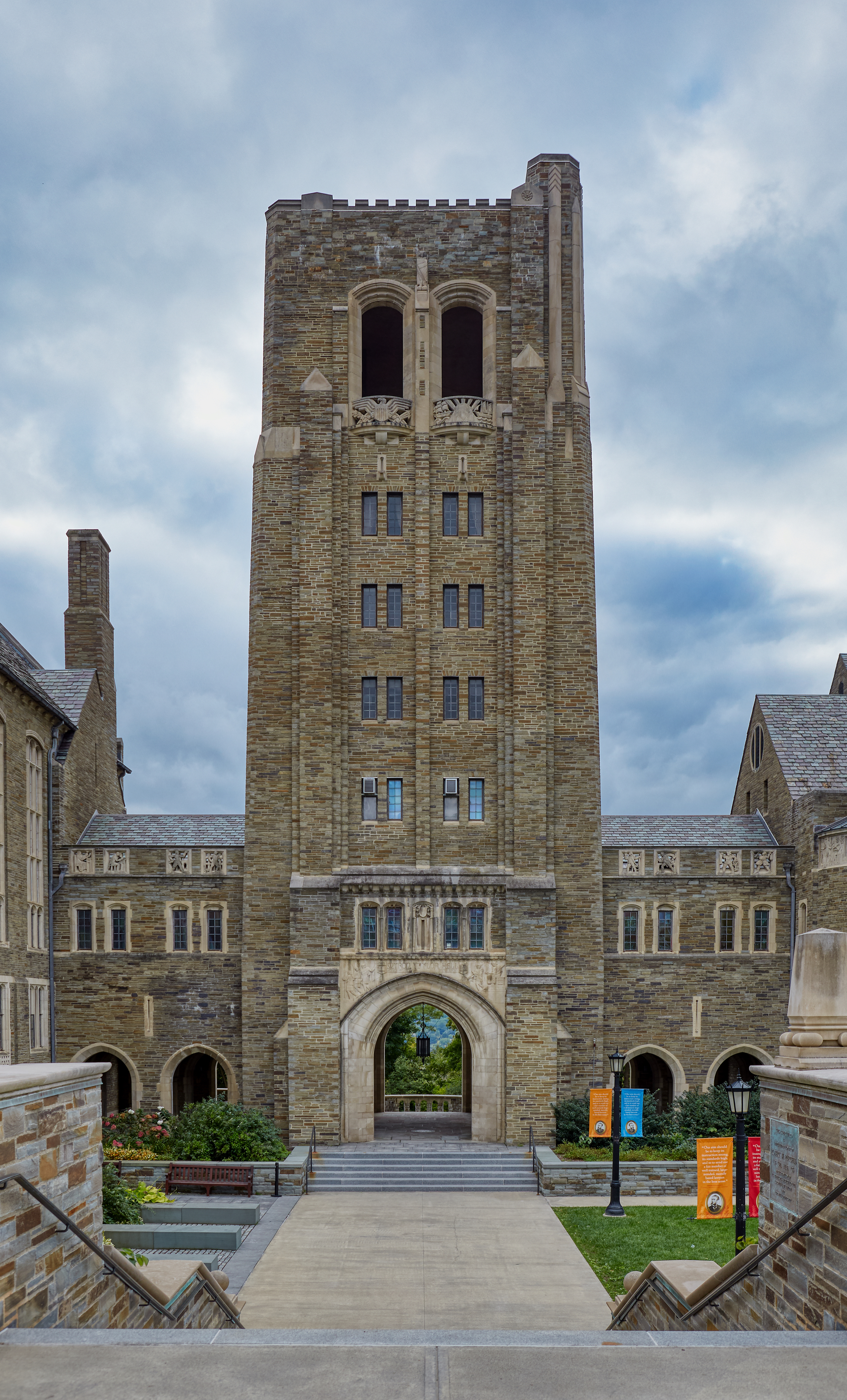 Cornell Law School Tower Courtyard